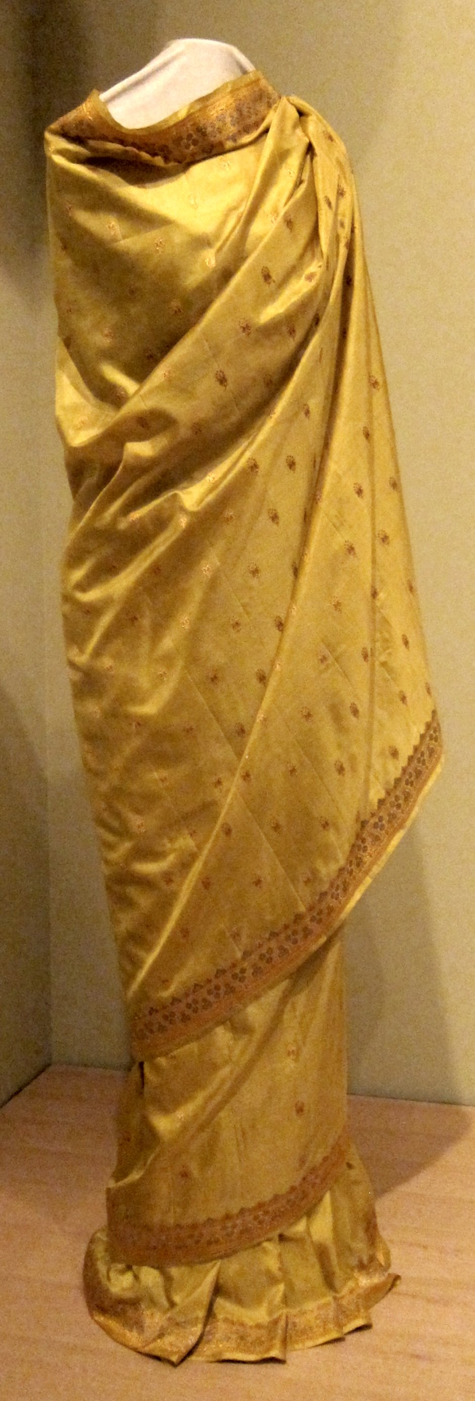 Sari from India (probably Benares), late 19th or early 20th century, silk with metallic thread, Honolulu Academy of Arts (loan from the Doris Duke Foundation for Islamic Art)